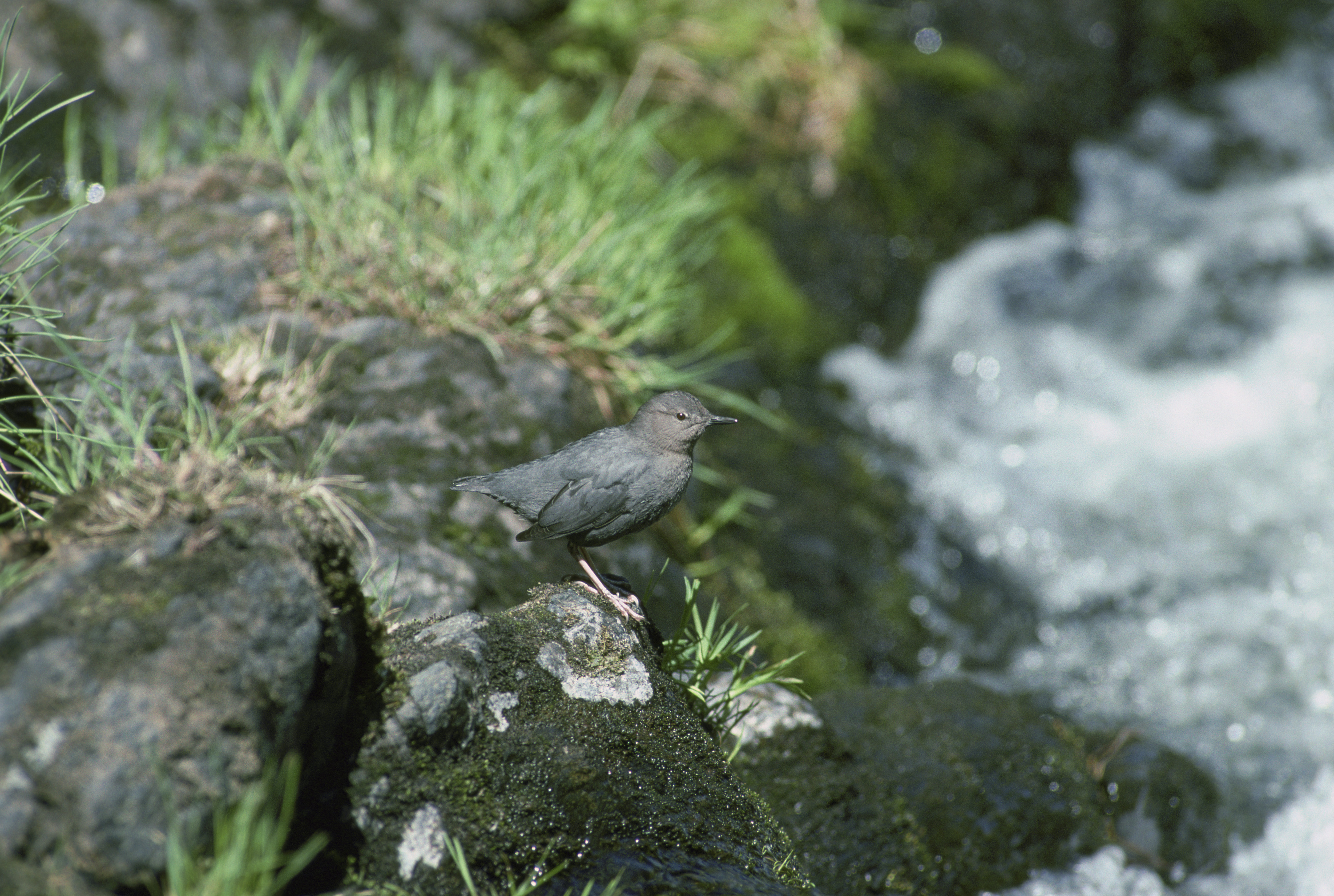 American Dipper (Cinclus mexicanus), photographed at Three Sisters Creek on Kodiak Island